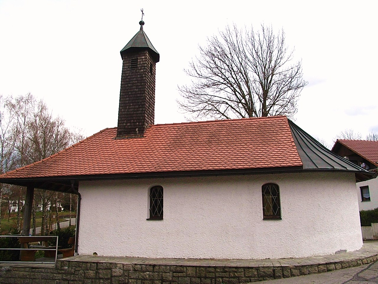 Village chapel in Zachenberg